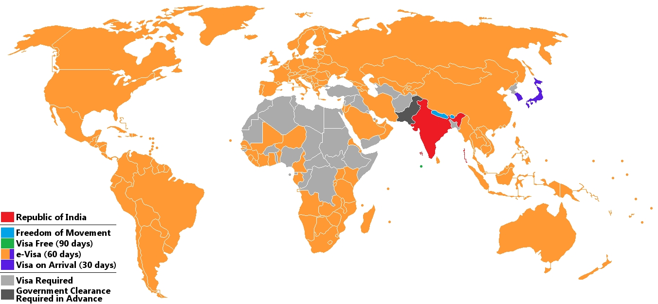 Visa policy of India India Free movement Visa-free e-Visa Visa on arrival Visa required Government clearance required in advance